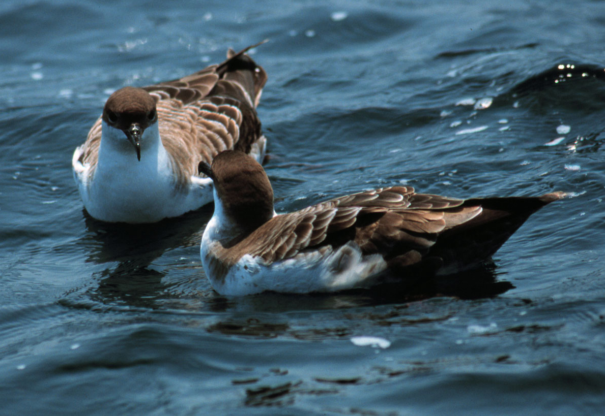 Puffinus gravis, Stellwagen Bank, off Cape Cod, MA, USA.